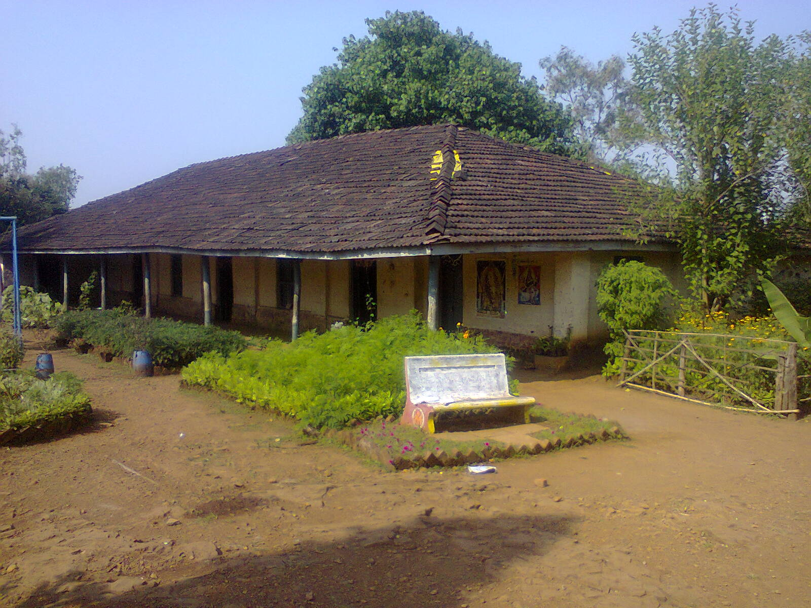 Kaprada Ashram Shala 'Dakshin Gujarat Adivasi Tribal Sevamandal.